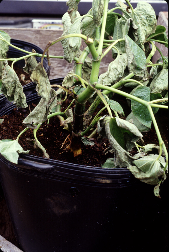 'Awa (kava Piper methysticum): Pythium Root Rot -- wilt on young plant. Pythium splendens.